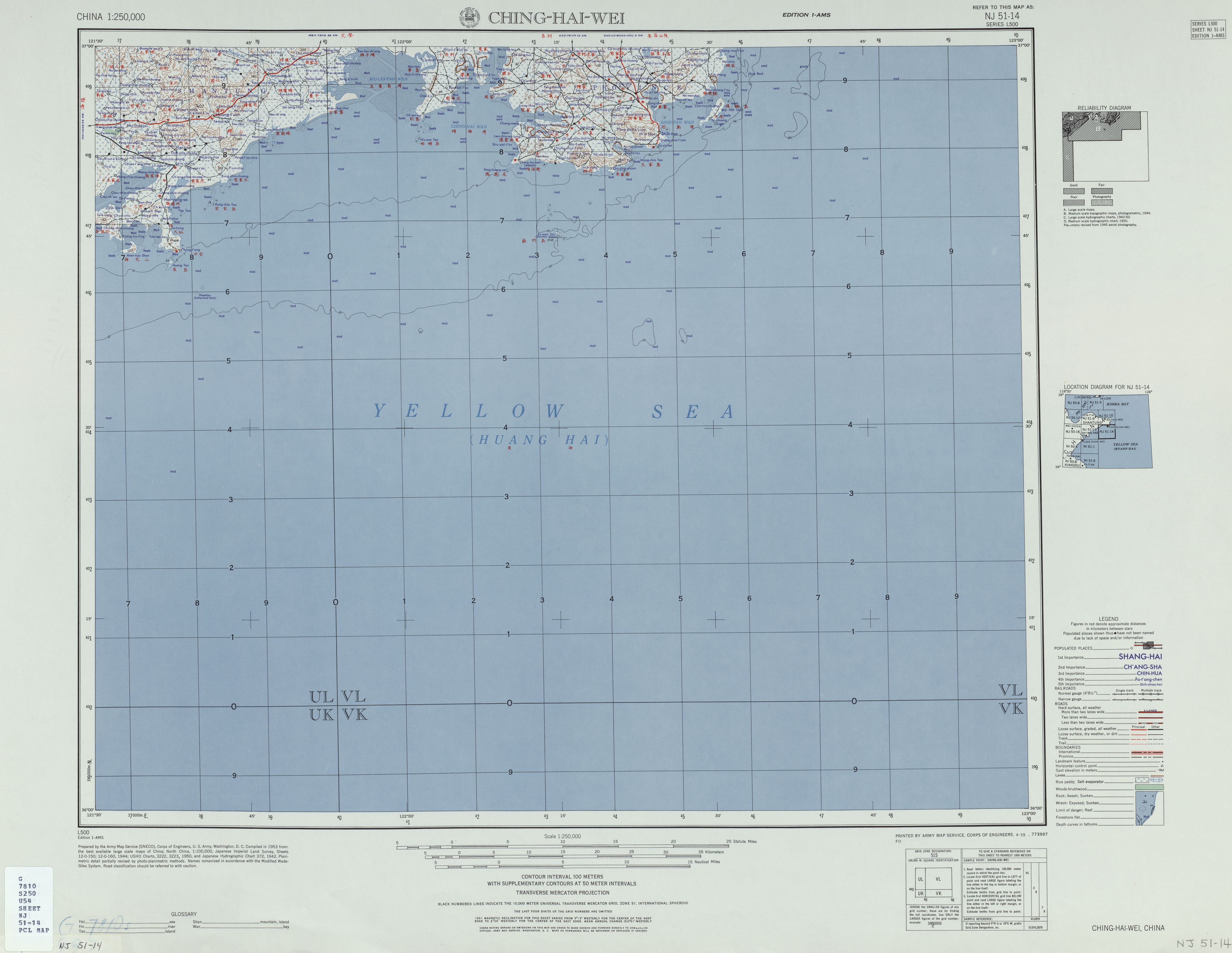 Map of the Jinghai Bay (Ching-hai Wan) area, Shandong